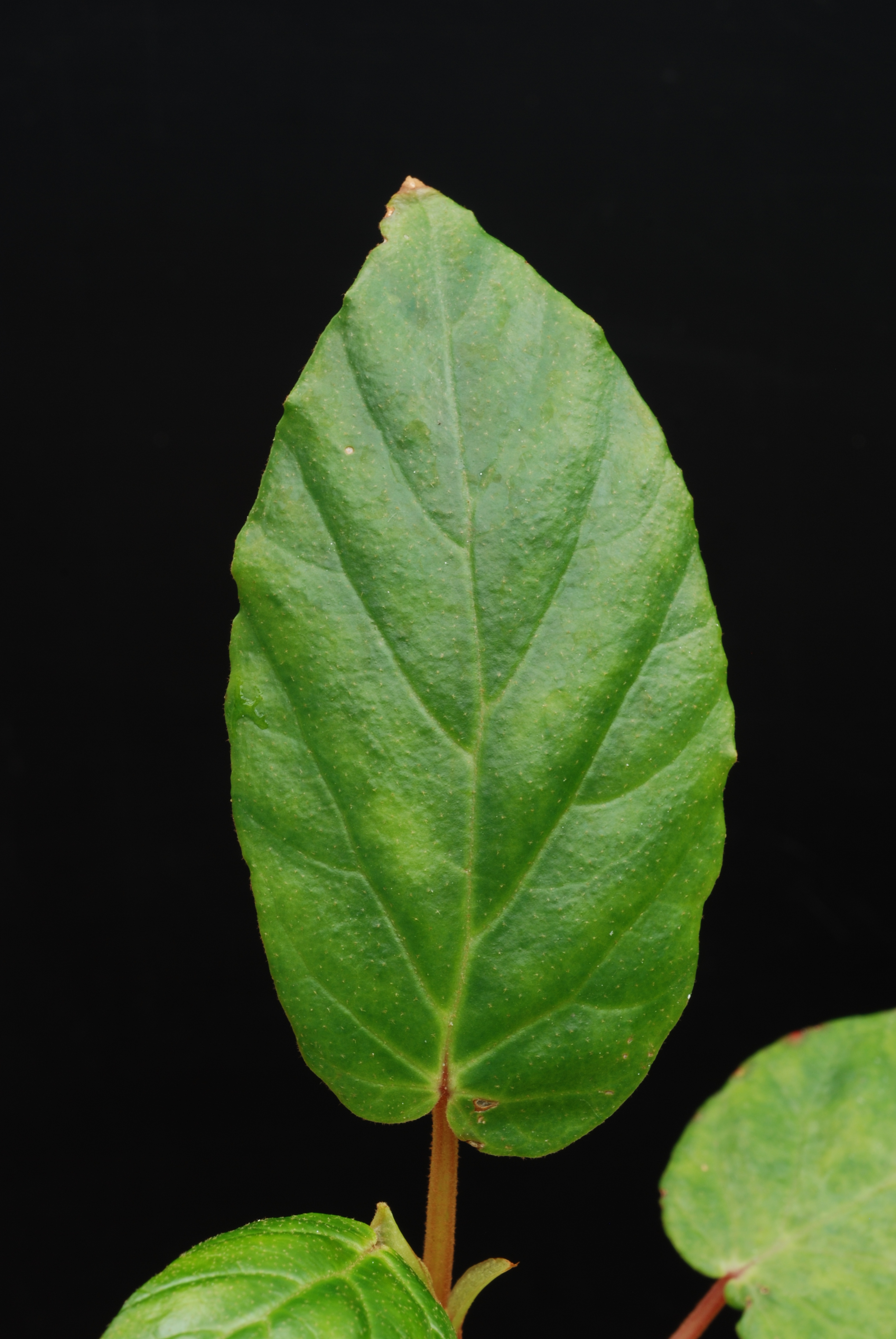 Begonia oxyanthera Warb. Family : Begoniaceae Accession : 20011720-38 National Botanical Garden of Belgium Meise Botanic Garden Native nameNationale Plantentuin van België / Jardin Botanique National de BelgiqueLocationDomein van Bouchout / Domaine de BouchoutNieuwelaan 381860 MeiseBelgiumCoordinates50° 55′ 42.28″ N, 4° 19′ 36.78″ E Established1826: established, 1870: became publicly owned,Web page control : Q3052500 VIAF: 159423716 ISNI: 0000 0001 2195 7598 LCCN: n50078011 NLA: 35880480 SELIBR: 120680 WorldCat institution QS:P195,Q3052500 Created under the volunteer photographer program at the National Botanical Garden of Belgium.